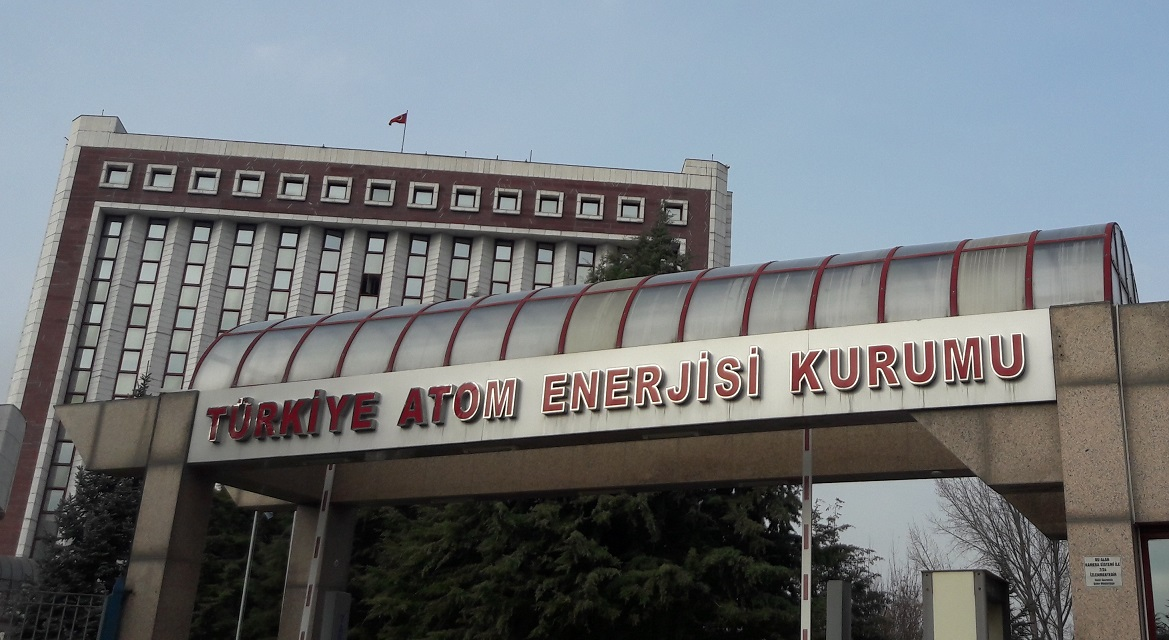 Turkish Atomic Energy Authority building in Ankara.